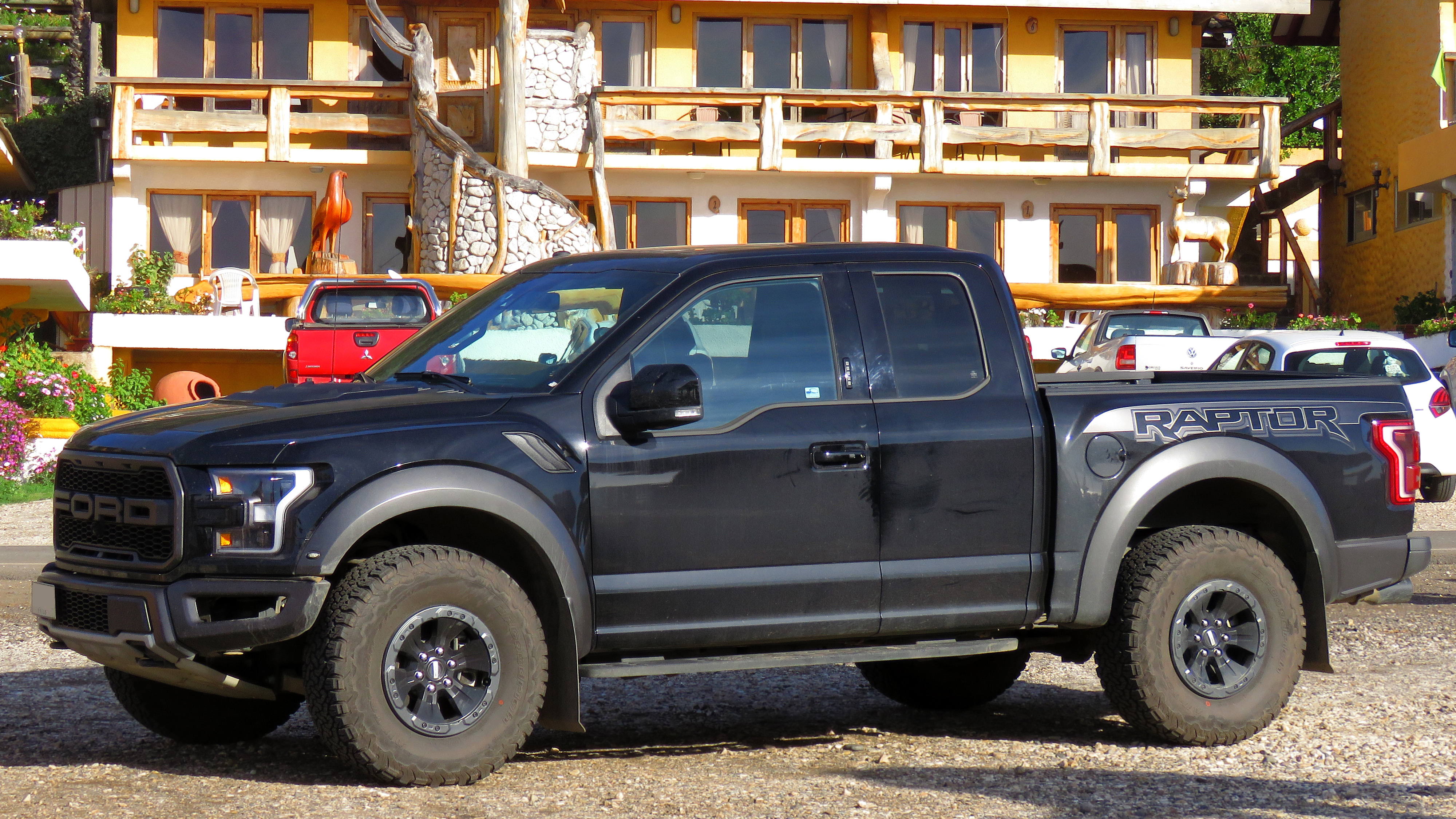 Ford F-150 SVT Raptor 3.5T 2018